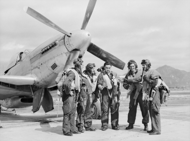 A group of Royal Australian Air Force pilots from No. 76 Squadron receiving a briefing before conducting flights over Japan in their P-51 Mustang fighters